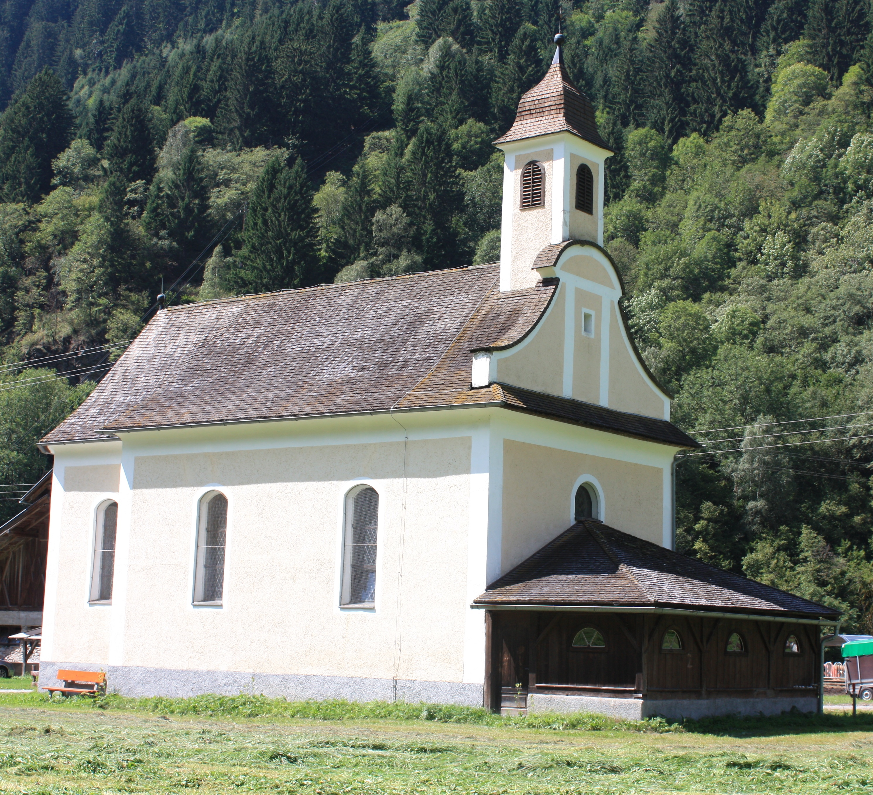 Pilgrim church „Maria Hilf“ Locality: Auen Community:Mörtschach